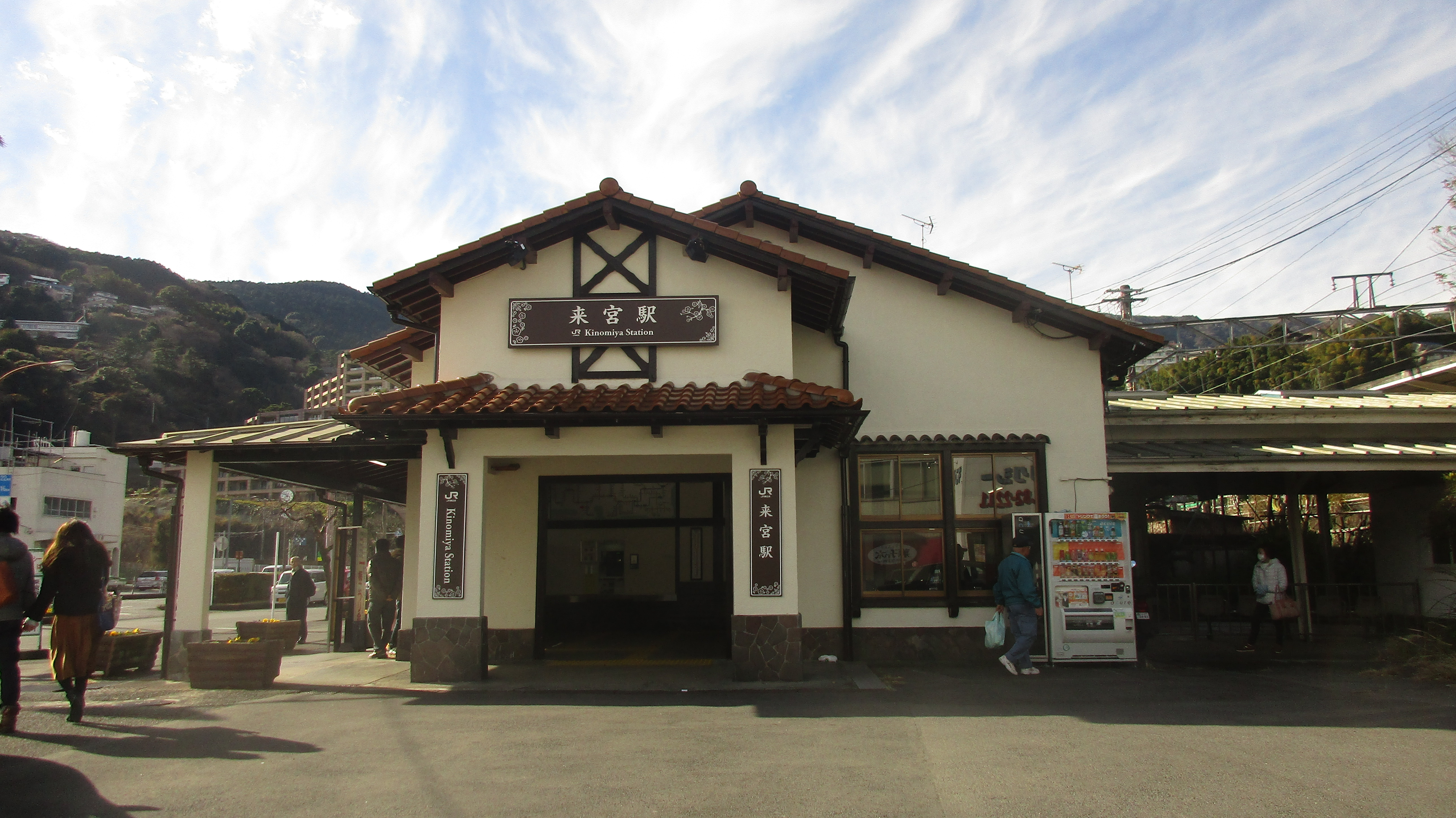 JR伊東線 来宮駅舎